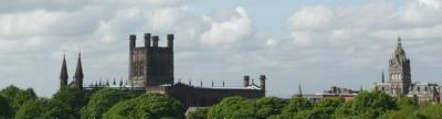 Taken From My Balcony In Newtown, Showing Chester Cathedral & Town Hall